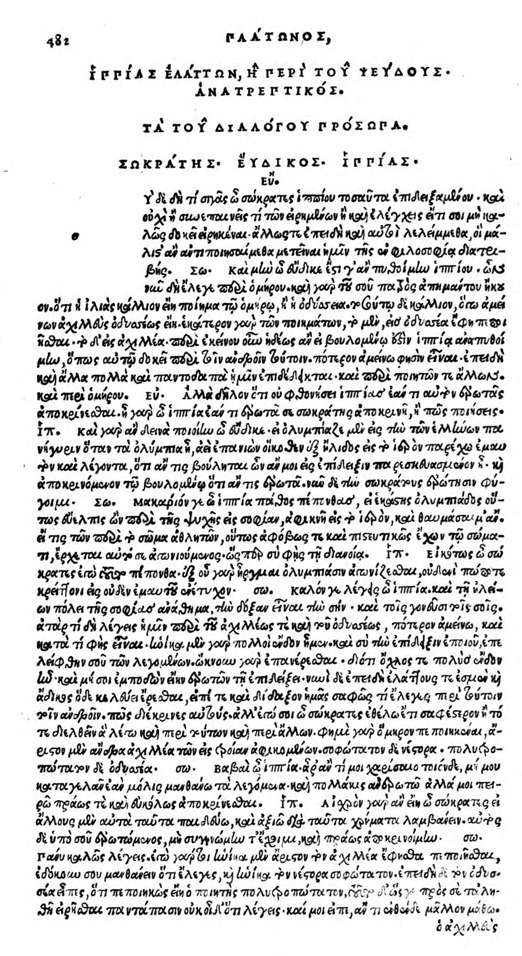 Hippias minor beginning. Editio princeps, Venice 1513.